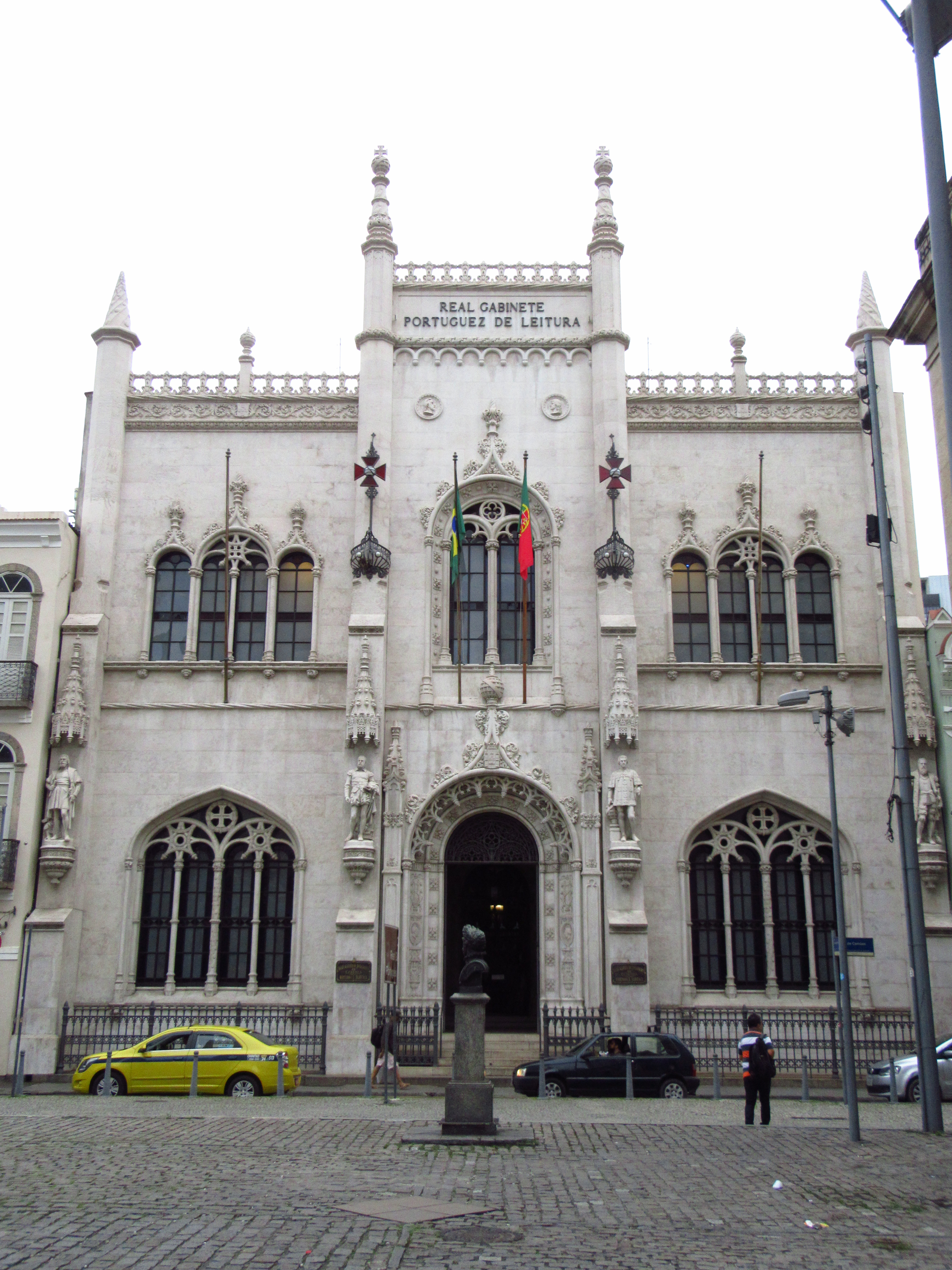 2018 Rio de Janeir